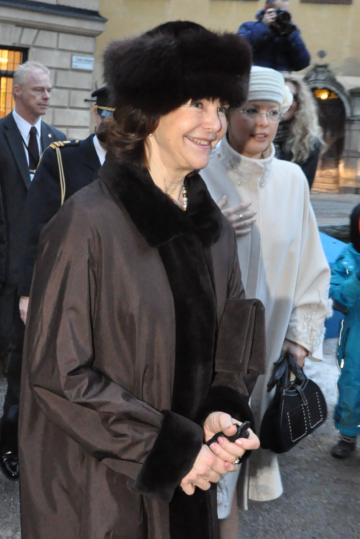 Visit to Estonian school. State visit to Stockholm, Sweden, 19-19-20-january-2011